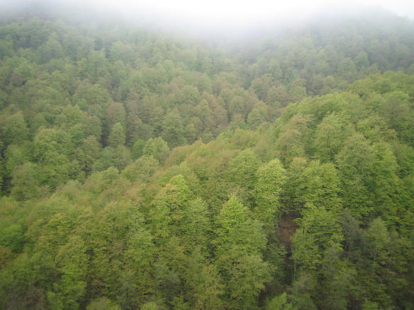 Dilijan Forest, Dilijan National Park, Armenia.